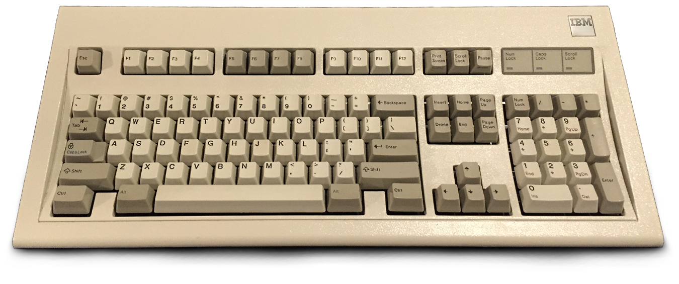 An early IBM Model M manufactured in 1986 with the 'square badge' logo.